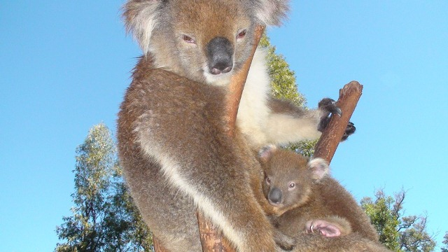 At Adventure World, Perth